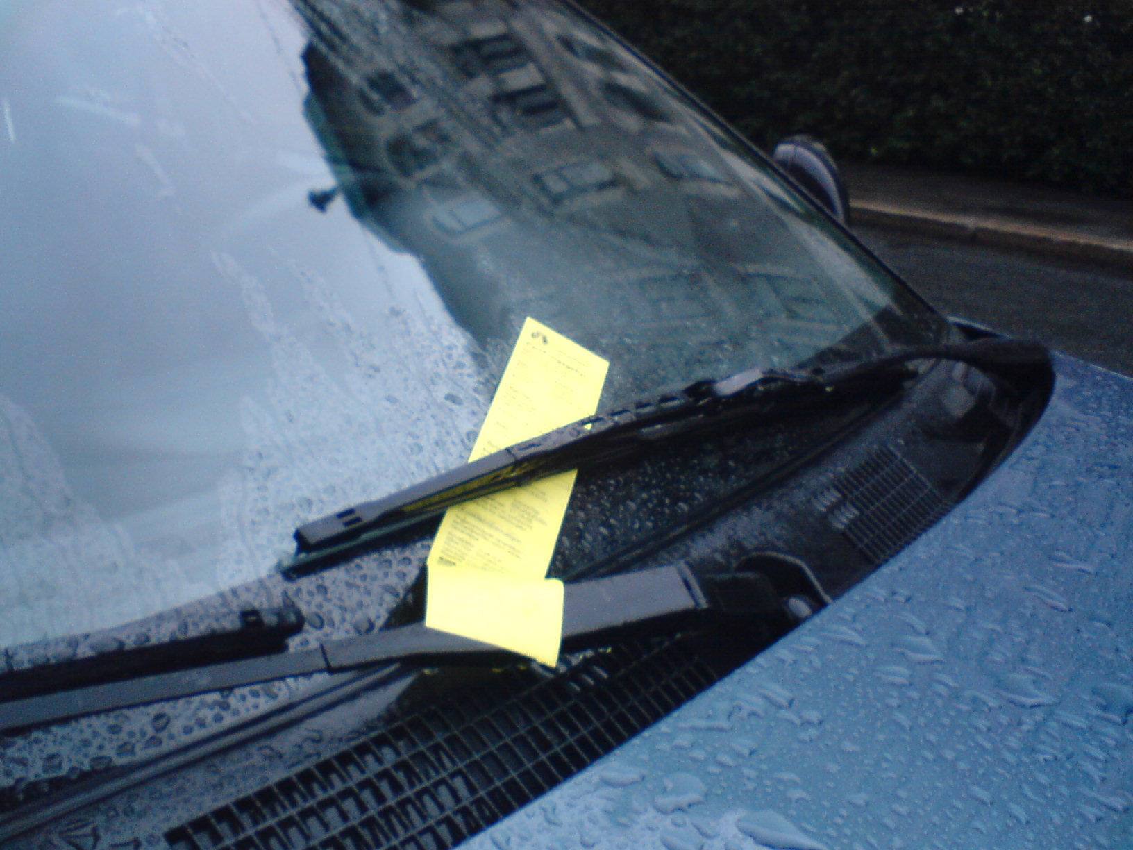 Parking ticket in Oslo, Norway.